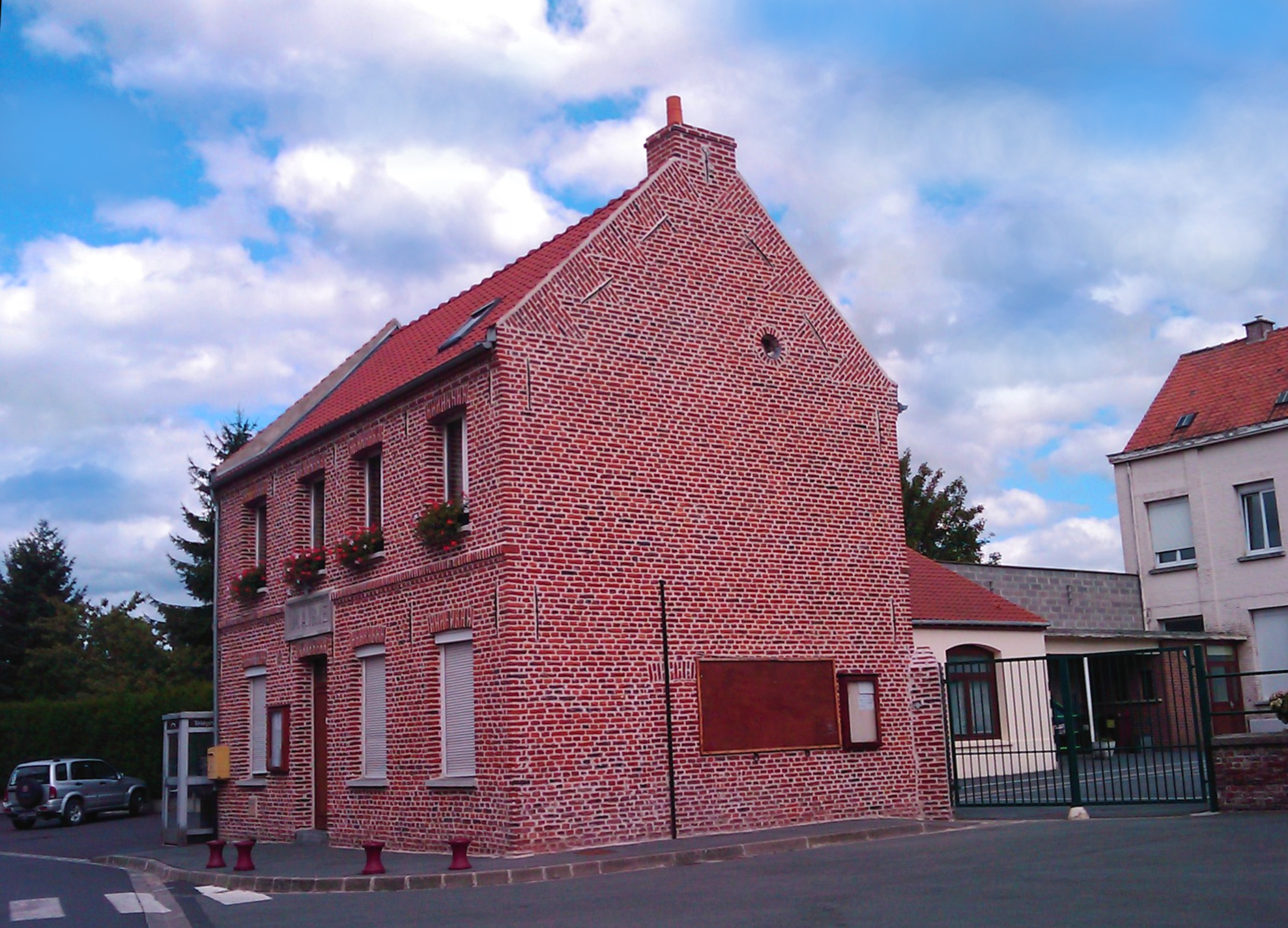 Depicted place: Q69390905